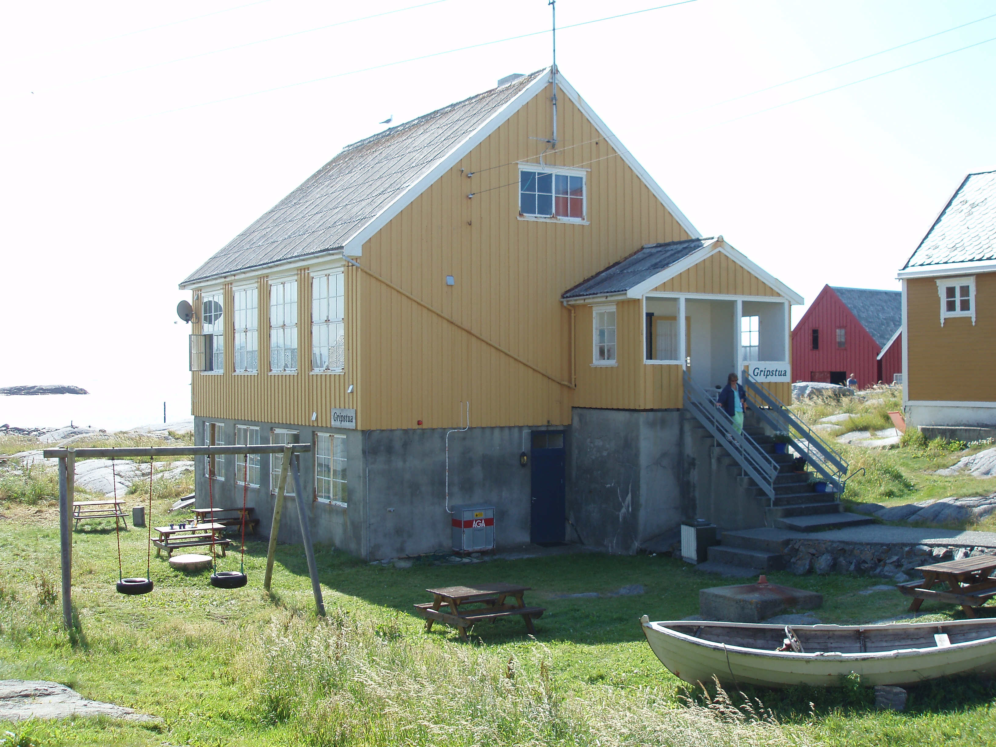 Gripstua on the island Grip in Kristiansund municipality in Møre og Romsdal county in Norway.